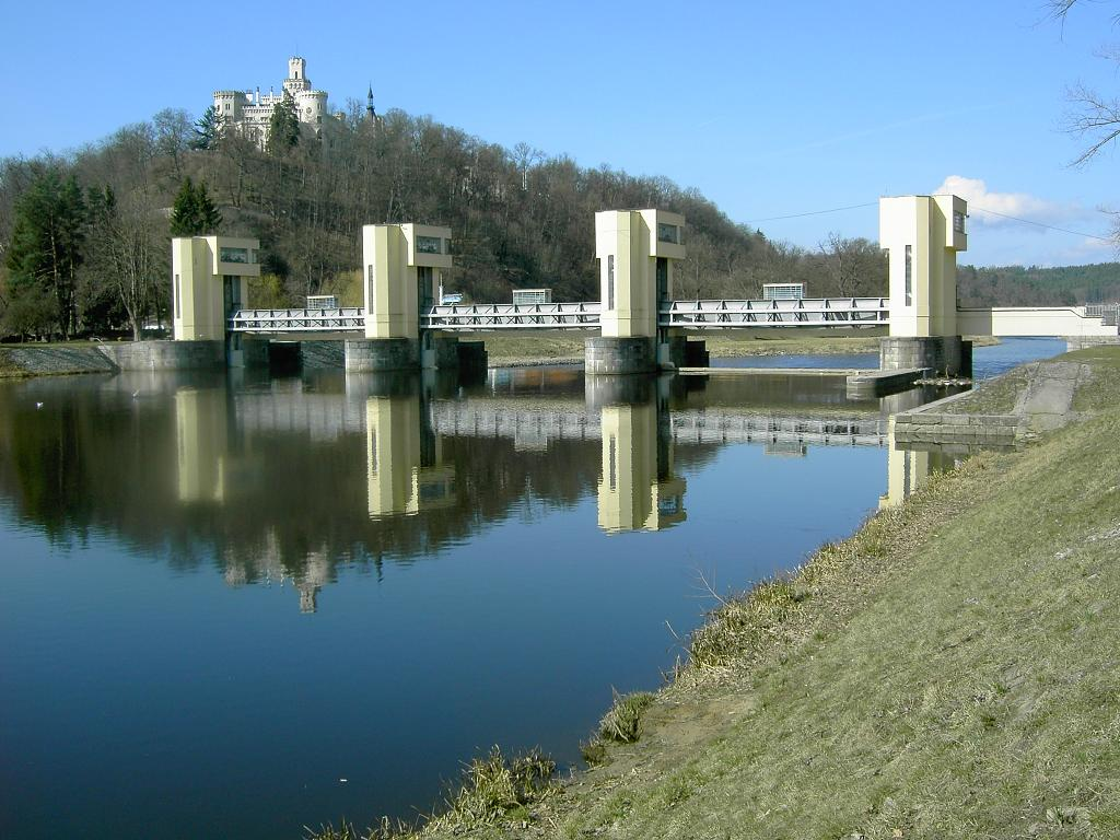 dam Hluboká nad Vltavou, Vltava river, Czech republic